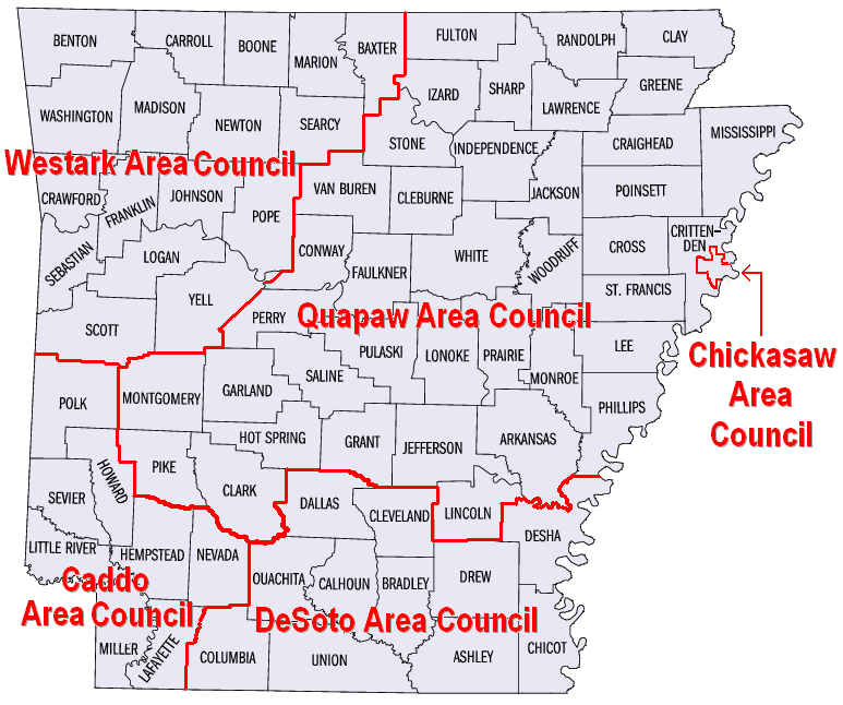 Map of Boys Scout councils in Arkansas